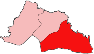 Map of Grand Gedeh County, Liberia showing Konobo District; created with the GIMP. Made by User:Acntx.